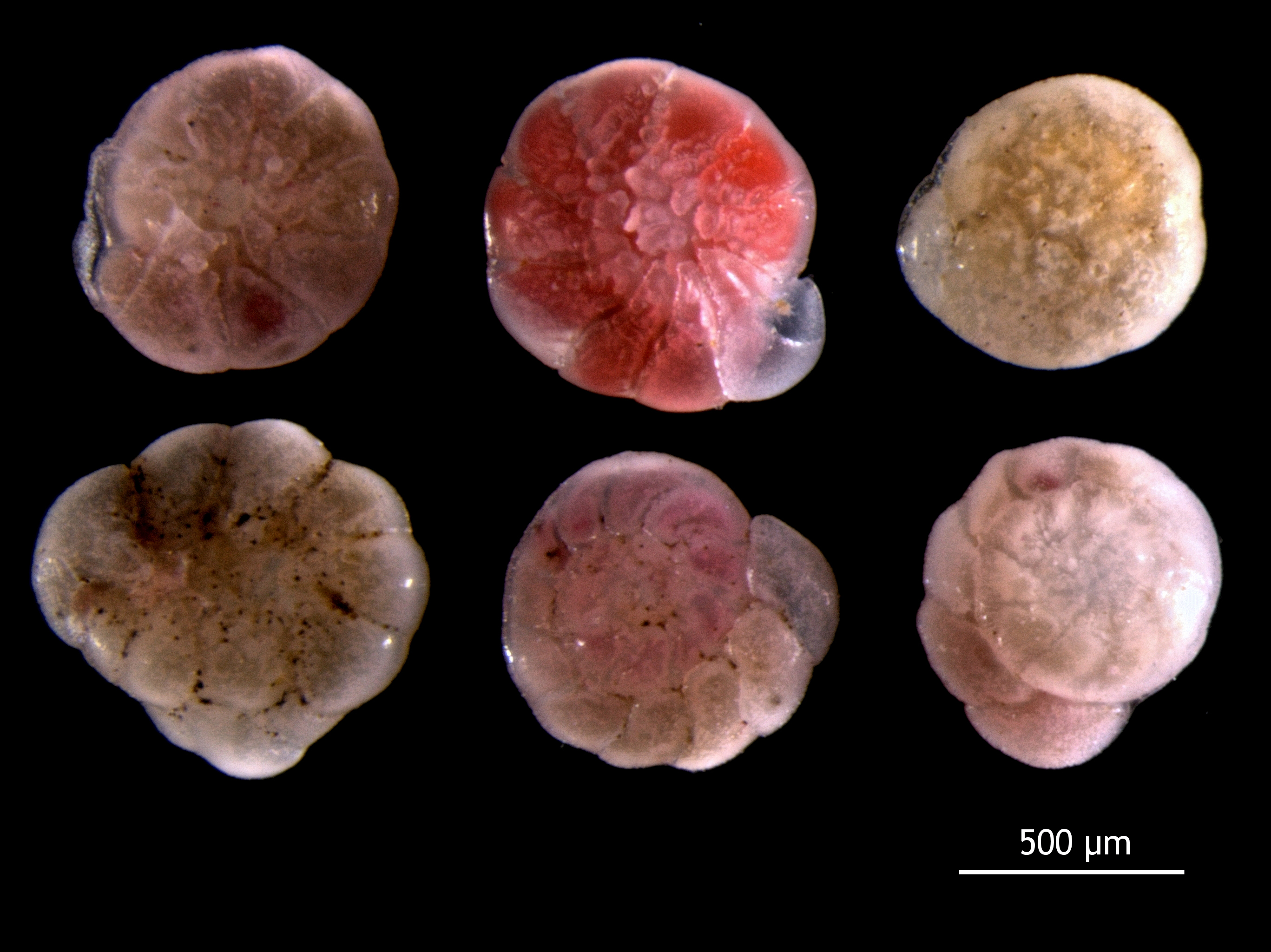 Benthic forams, taken with a Leica DFC 490 camera mounted on a Leica M205C binocular microscope. Collected in 2011 at 51°42′32.88″N 2°27′3.98″E / 51.7091333°N 2.4511056°E on the edge of the Belgian part of the North Sea. Diameter = ~600 µm Focus stacking of 23 pictures.